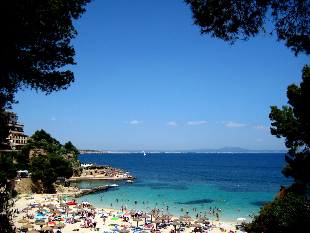 Palma de Majorca